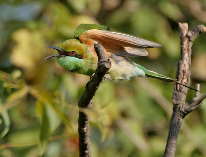 Green Bee-eater Merops orientalis in Hyderabad, India.